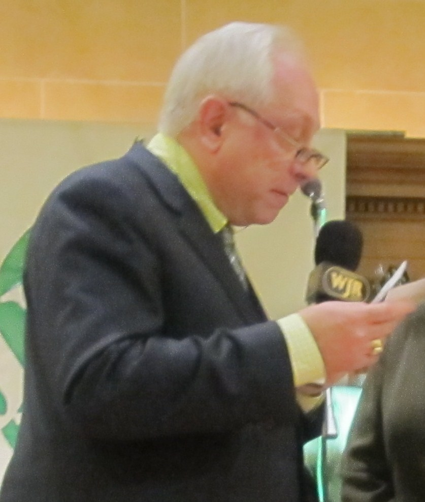 Senator Stabenow joined in at Paul W. Smith’s St. Patrick’s Day Celebration in Detroit.